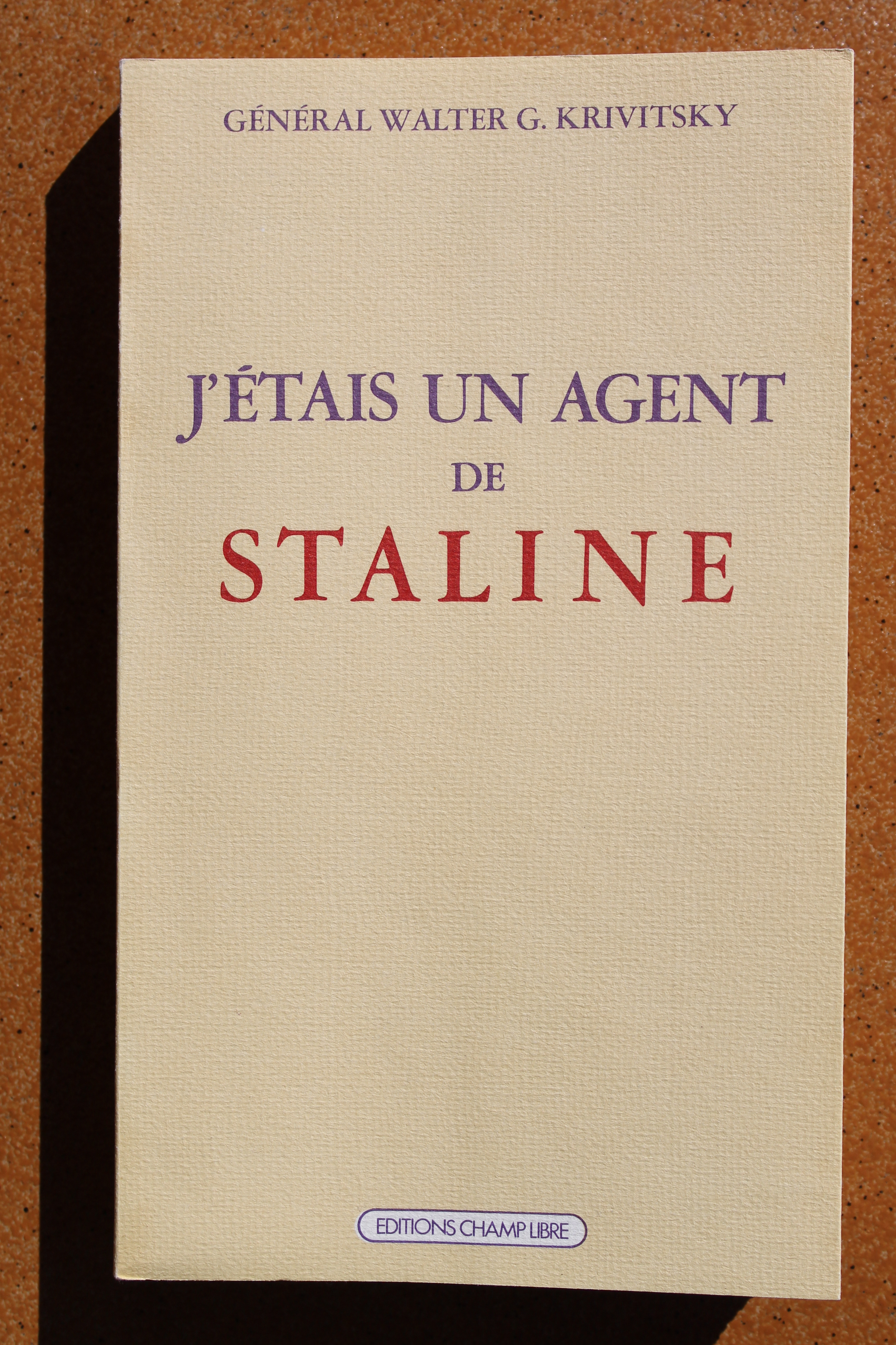 Walter Krivitsky book